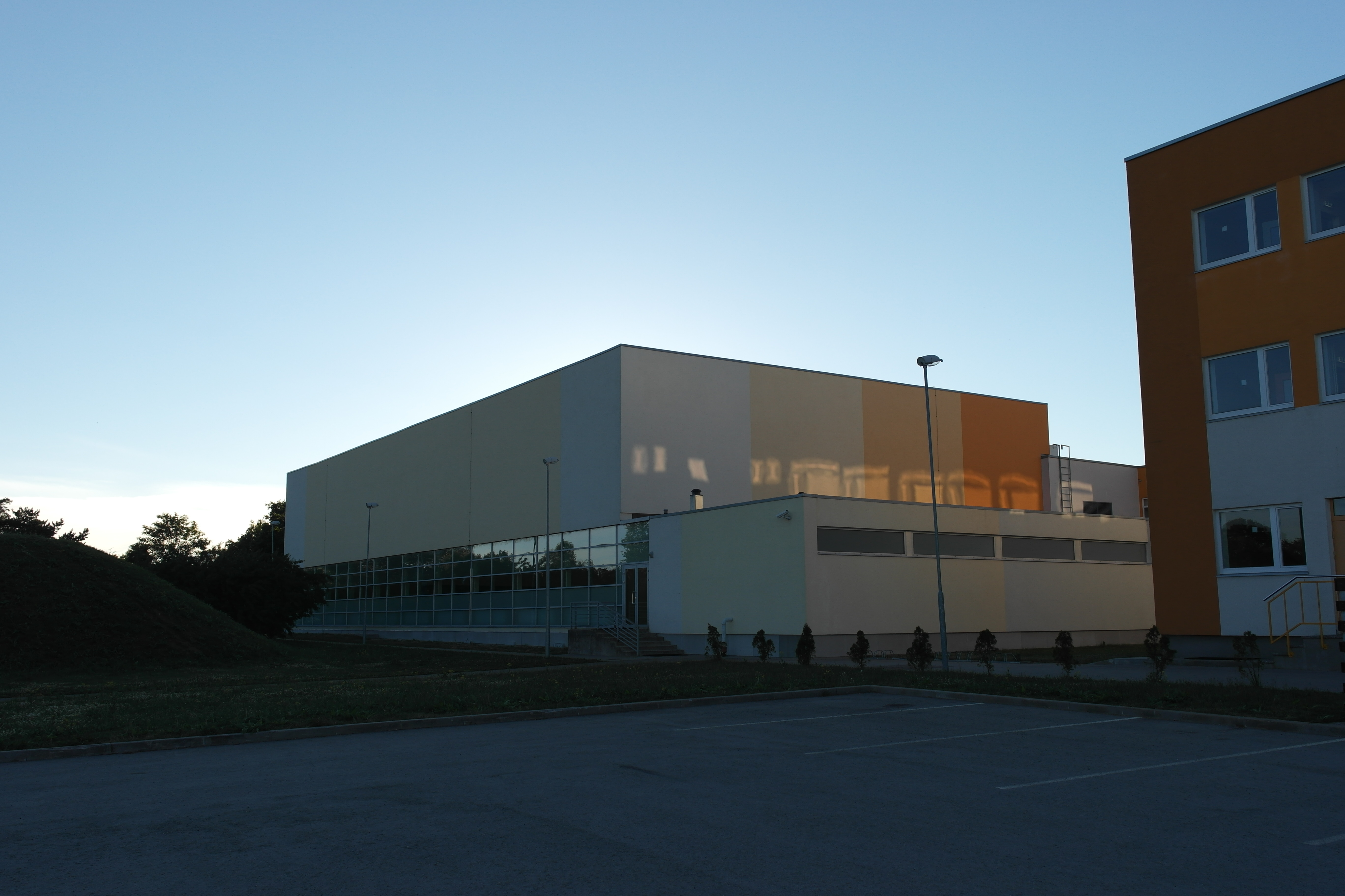 Aruküla Sport Building